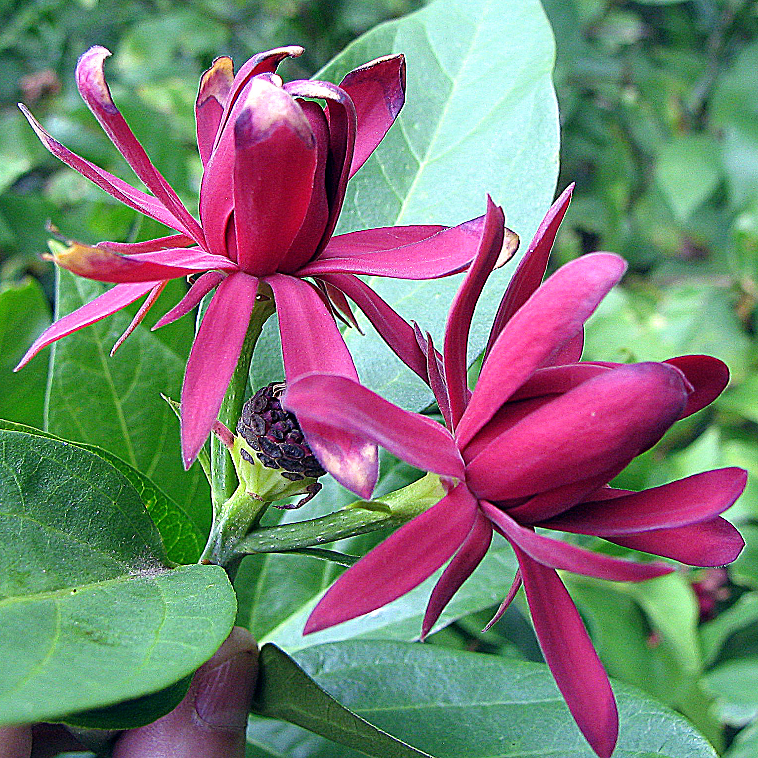 Calycanthus floridus flowers